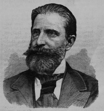 Portrait of the jurist Pál Hoffmann